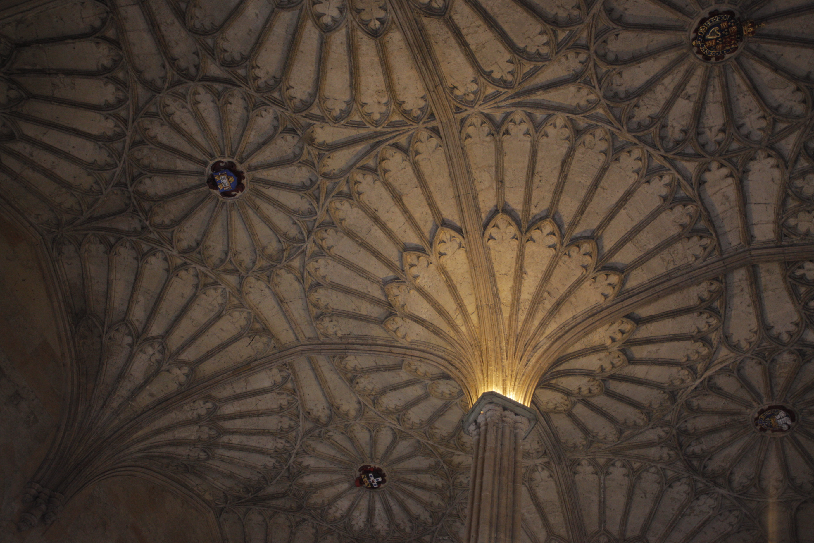 Fan vaulting in the staircase at Christ Church, Oxford